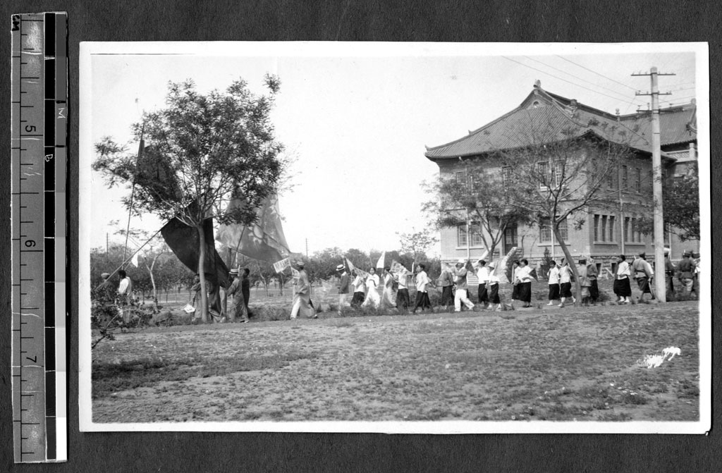 Students parade related to Jinan Incident, Cheeloo University, Jinan, Shandong, China, 1928, source: YDS/RG011/414/5873/4964, Yale Divinity Library Special Collections. Uploaded to Wikimedia Commons with permission from Yale Divinity Library.